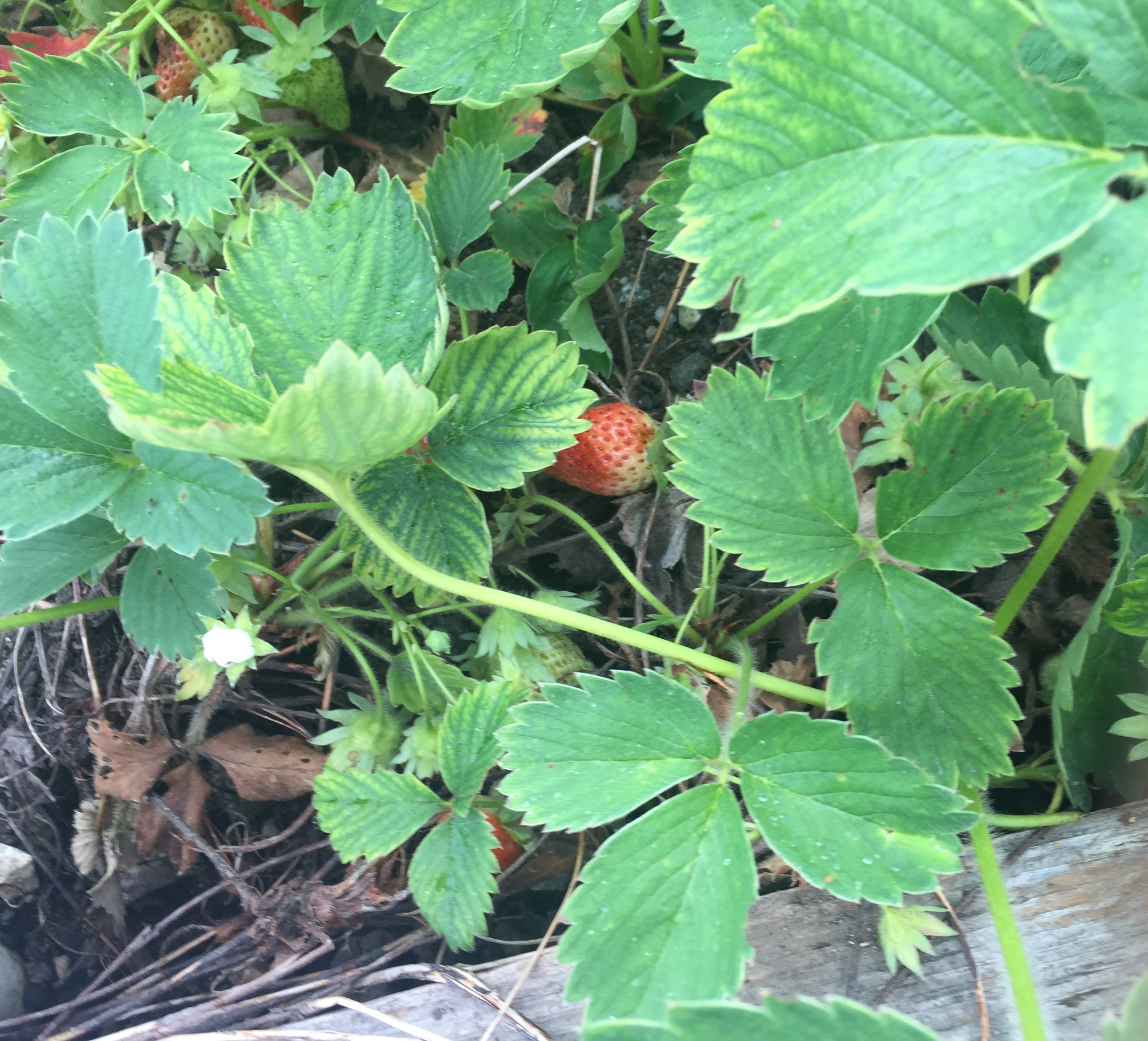 Fragaria x ananassa in the Food Garden in the UBC Botanical Garden.